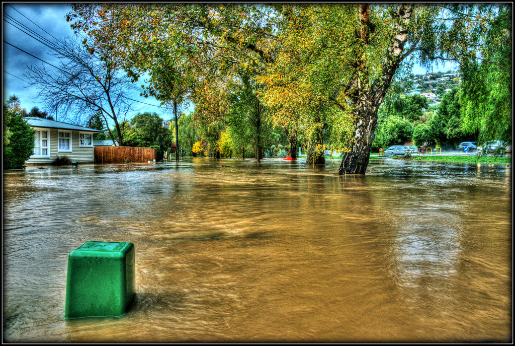 Heathcote River Flood, Christchurch. The house on the left is 27 Eastern Terrace in Beckenham.